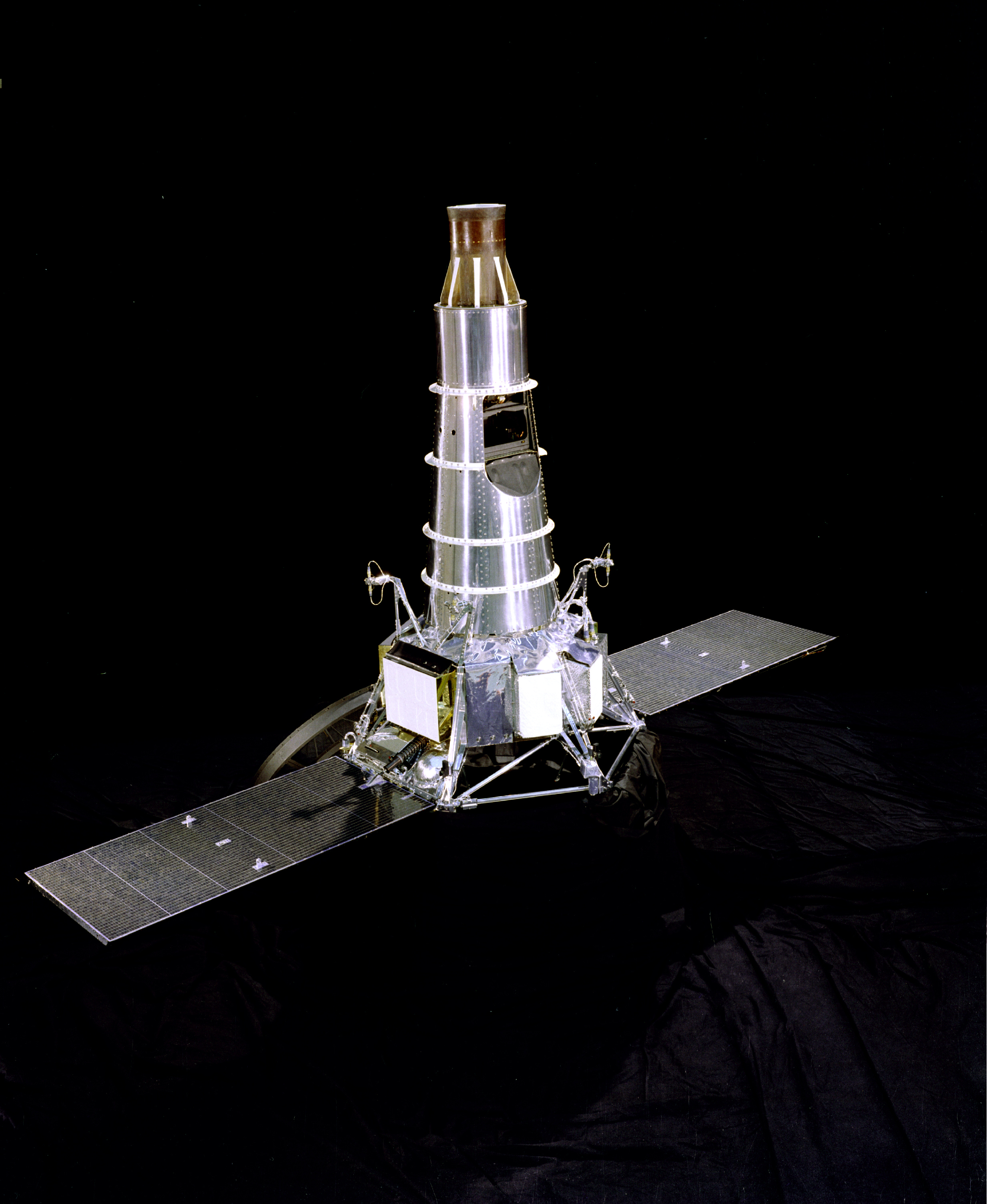 The Ranger fleet of spacecraft launched in the mid-sixties provided for thefirst time live television transmissions of the Moon from lunar orbit.These transmissions resolved surface features as small as 10 inches across and provided over 17,000 images of the lunar surface. These detailed photographs allowed scientists and engineers to study the Moon in greater detail than ever before thus allowing for the design of a spacecraft that would one day land men of Earth on its surface.